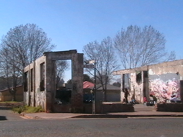 This photo shows one of the sites in Vrededorp that is still in ruins.